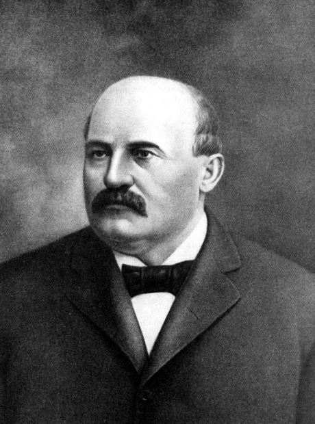 Portrait of brewer Christian Schmidt